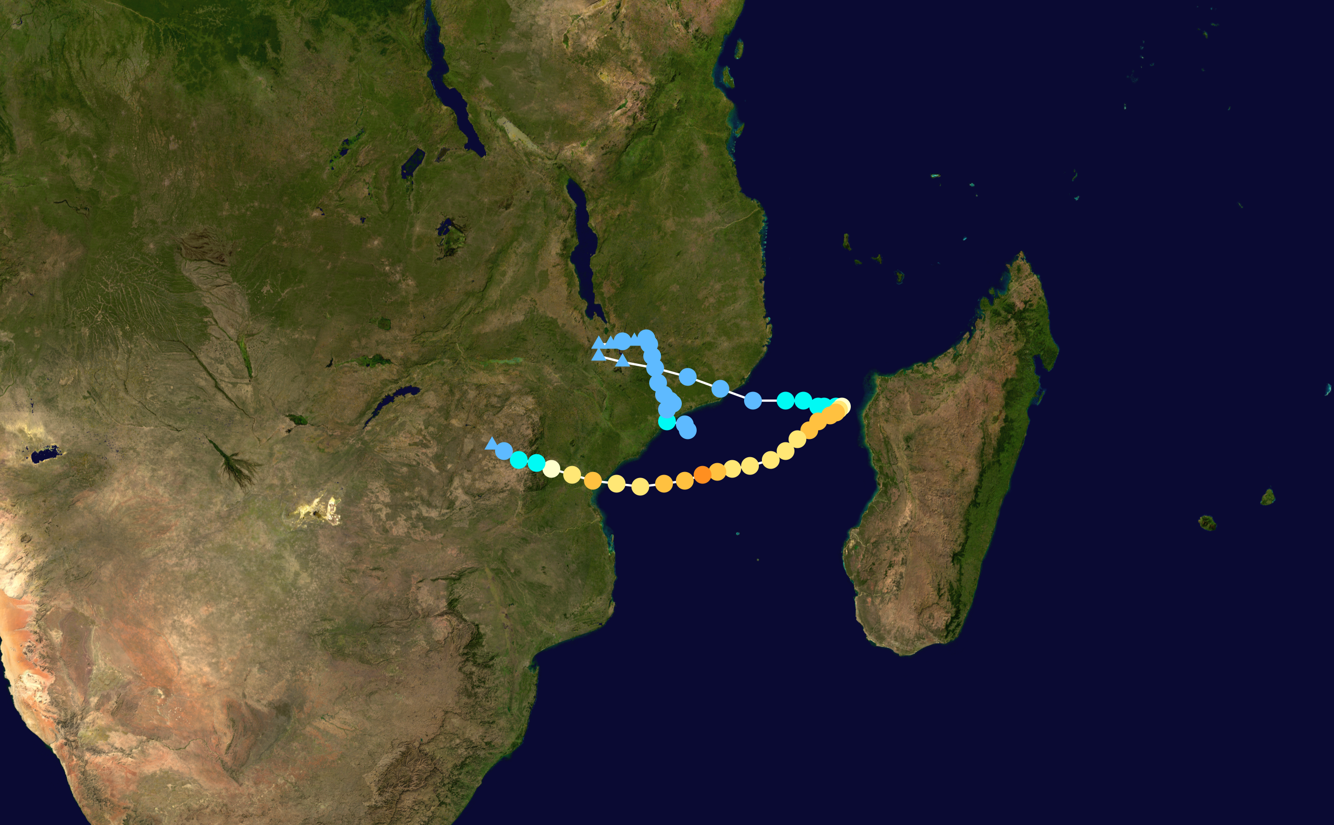 Track map of Intense Tropical Cyclone Idai of the 2018-19 South-West Indian Ocean cyclone season. The points show the location of the storm at 6-hour intervals. The colour represents the storm's maximum sustained wind speeds as classified in the Saffir–Simpson scale (see below), and the shape of the data points represent the nature of the storm, according to the legend below. Saffir–Simpson scale Tropical depression≤38 mph≤62 km/h Category 3111–129 mph178–208 km/h Tropical storm39–73 mph63–118 km/h Category 4130–156 mph209–251 km/h Category 174–95 mph119–153 km/h Category 5≥157 mph≥252 km/h Category 296–110 mph154–177 km/h Unknown Storm type Tropical cyclone Subtropical cyclone Extratropical cyclone / Remnant low / Tropical disturbance